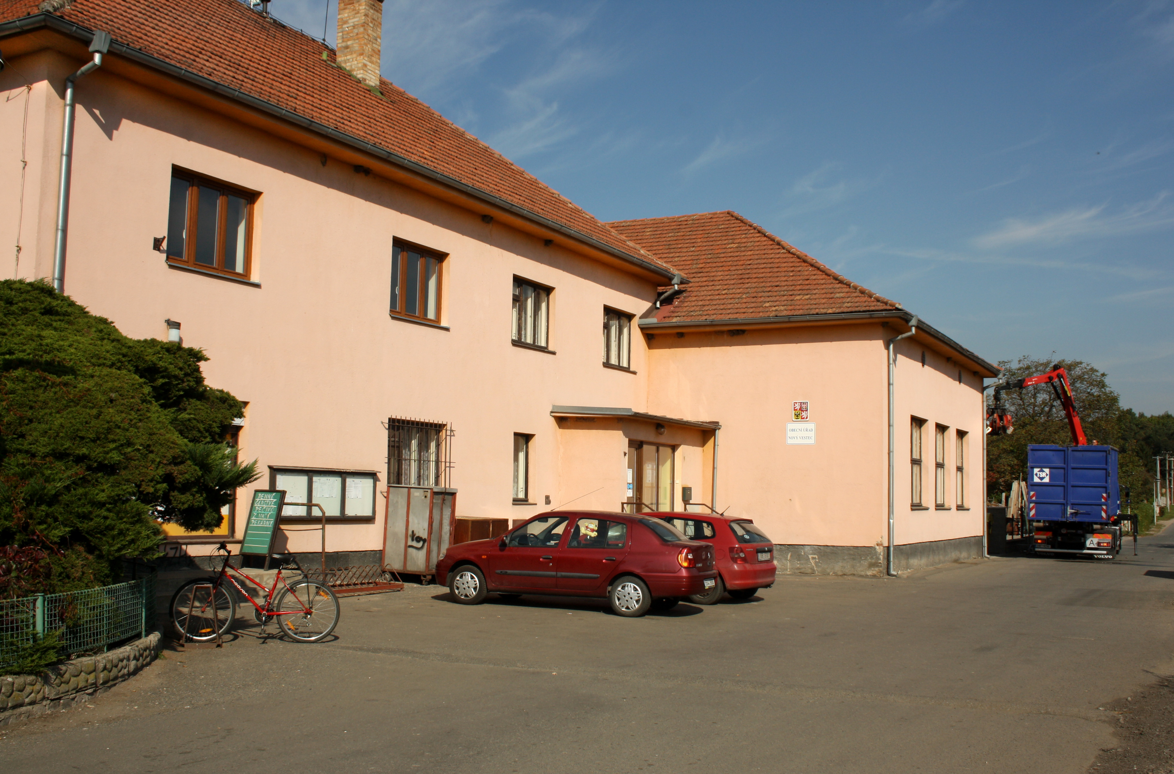 Municipal office in Nový Vestec, Czech Republic